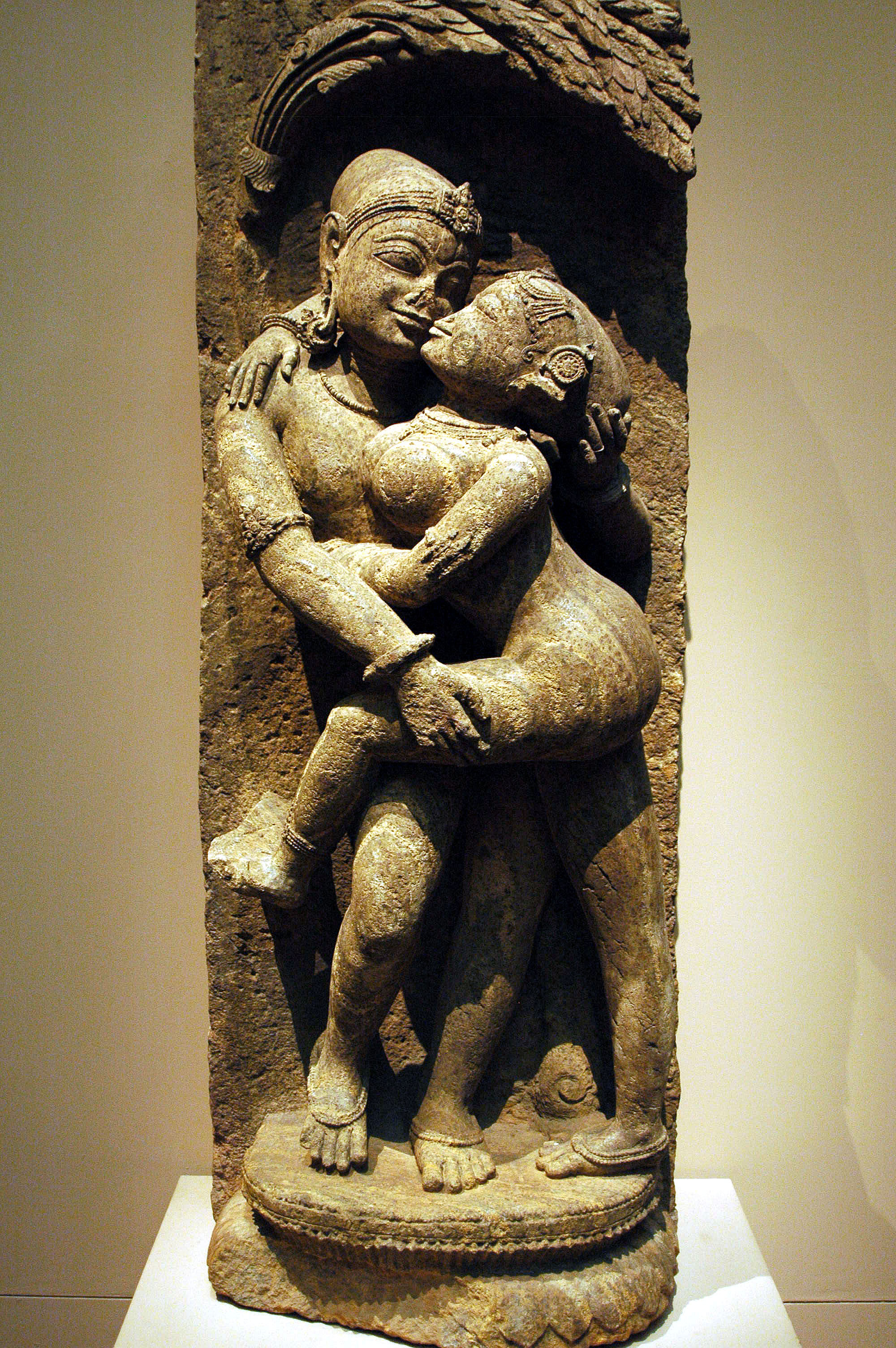 Loving Couple (Mithuna), Eastern Ganga dynasty, 13th century India (Orissa) Ferruginous stone; H. 72 in. (182.9 cm) The Metropolitan Museum of Art, New York, Purchase, Florance Waterbury Bequest, 1970 (1970.44) View at the Metropolitan Museum of Art website Wikipedia Loves Art at the Metropolitan Museum of Art This photo of item # 1970.44 at the Metropolitan Museum of Art was contributed under the team name "futons_of_rock" as part of the Wikipedia Loves Art project in February 2009. Metropolitan Museum of Art The original photograph on Flickr was taken by AlkaliSoaps—please add a comment to the original Flickr page whenever a use has been made on Wikipedia or another project. Project galleries on Flickr: this institution, this team